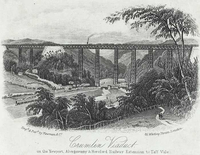 It shows a train crossing the viaduct and a row of houses.